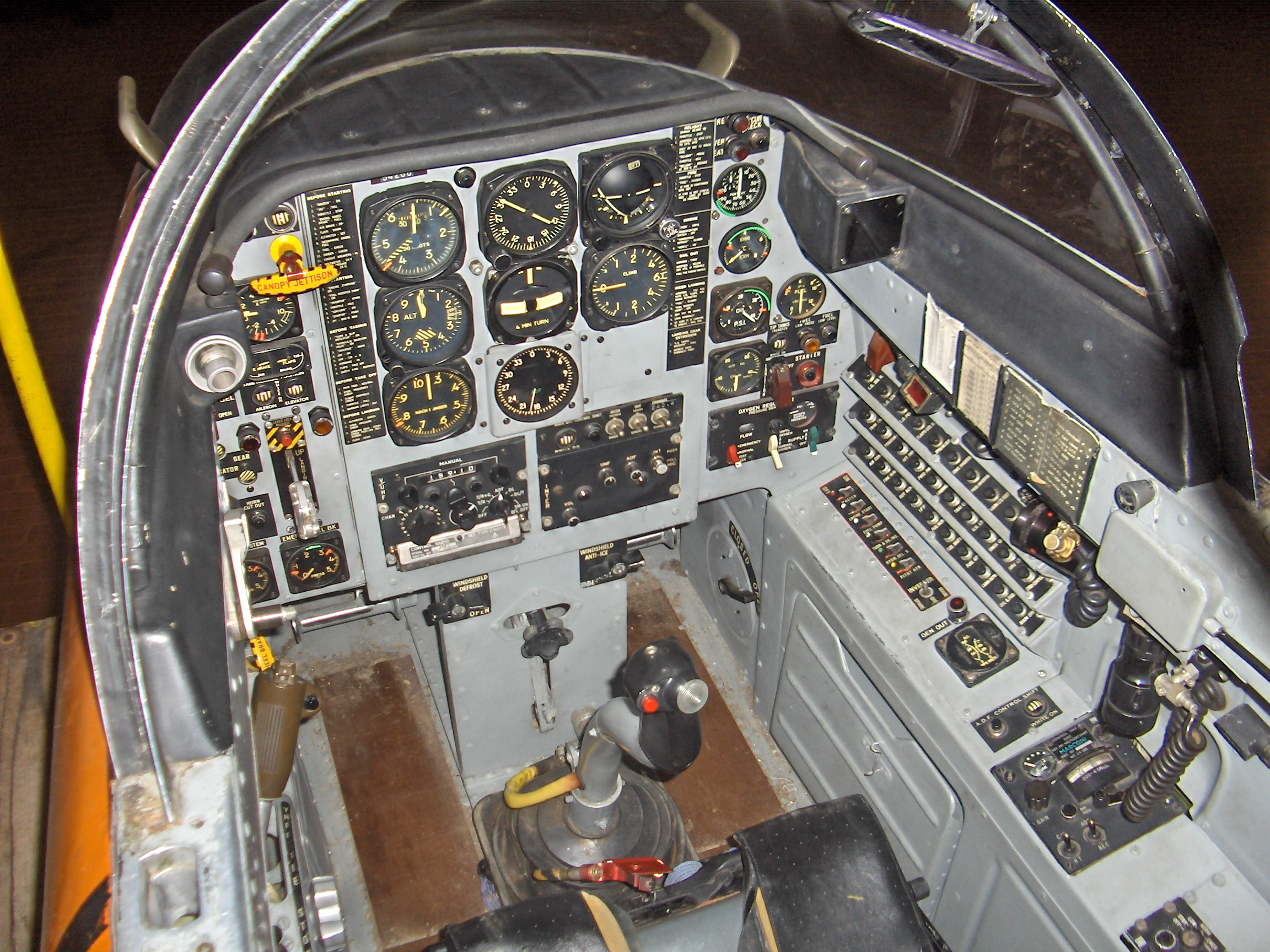 Cockpit of Aermacchi MB-326A of Italian Air Force at Istituto Tecnico Industriale Aeronautico "Malignani", Udine (Italy)